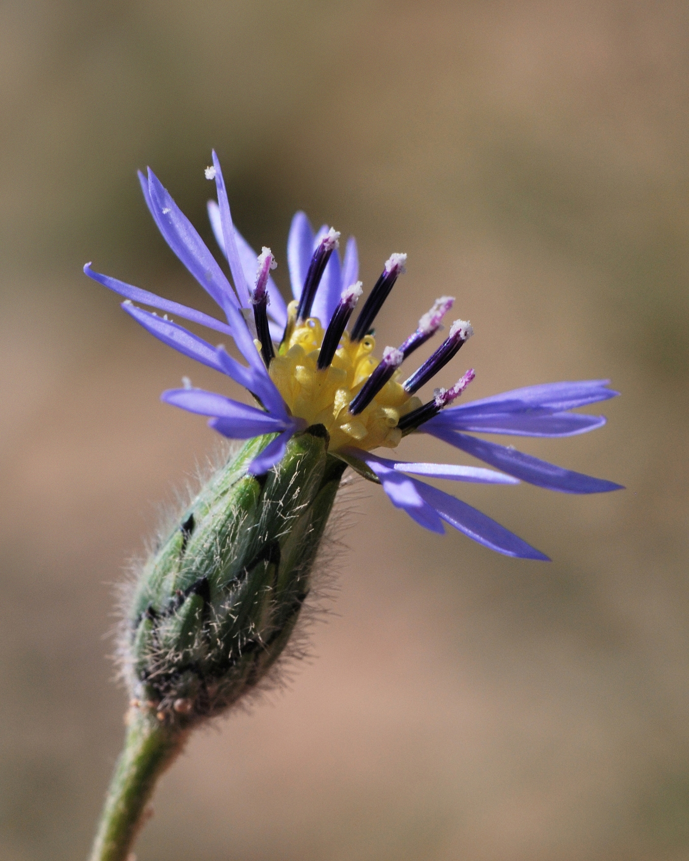 Volutaria crupinoides (Desf.) Cass. ex Maire, Northern Negev, Israel, February 23, 2010.